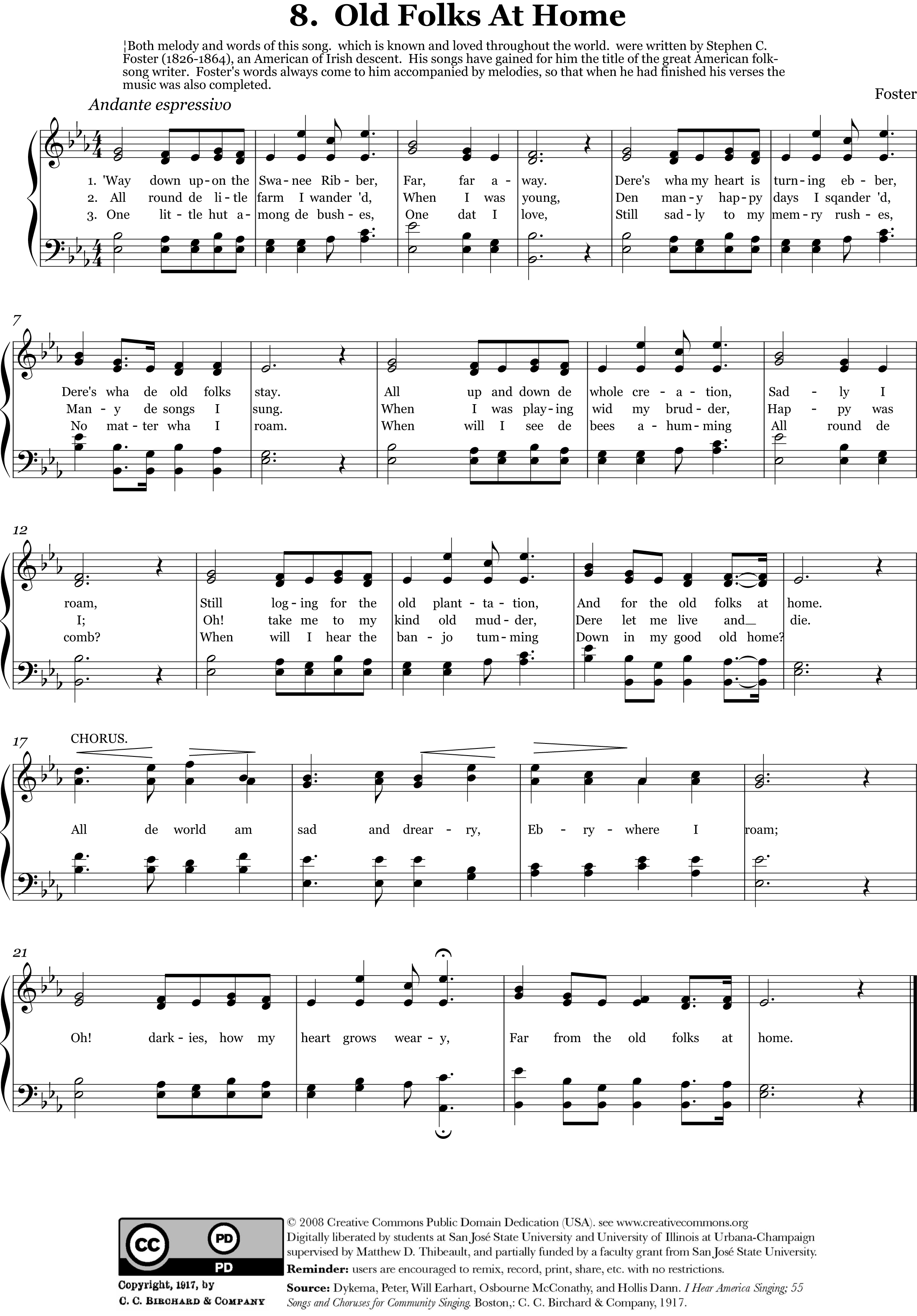 Old Folks at Home